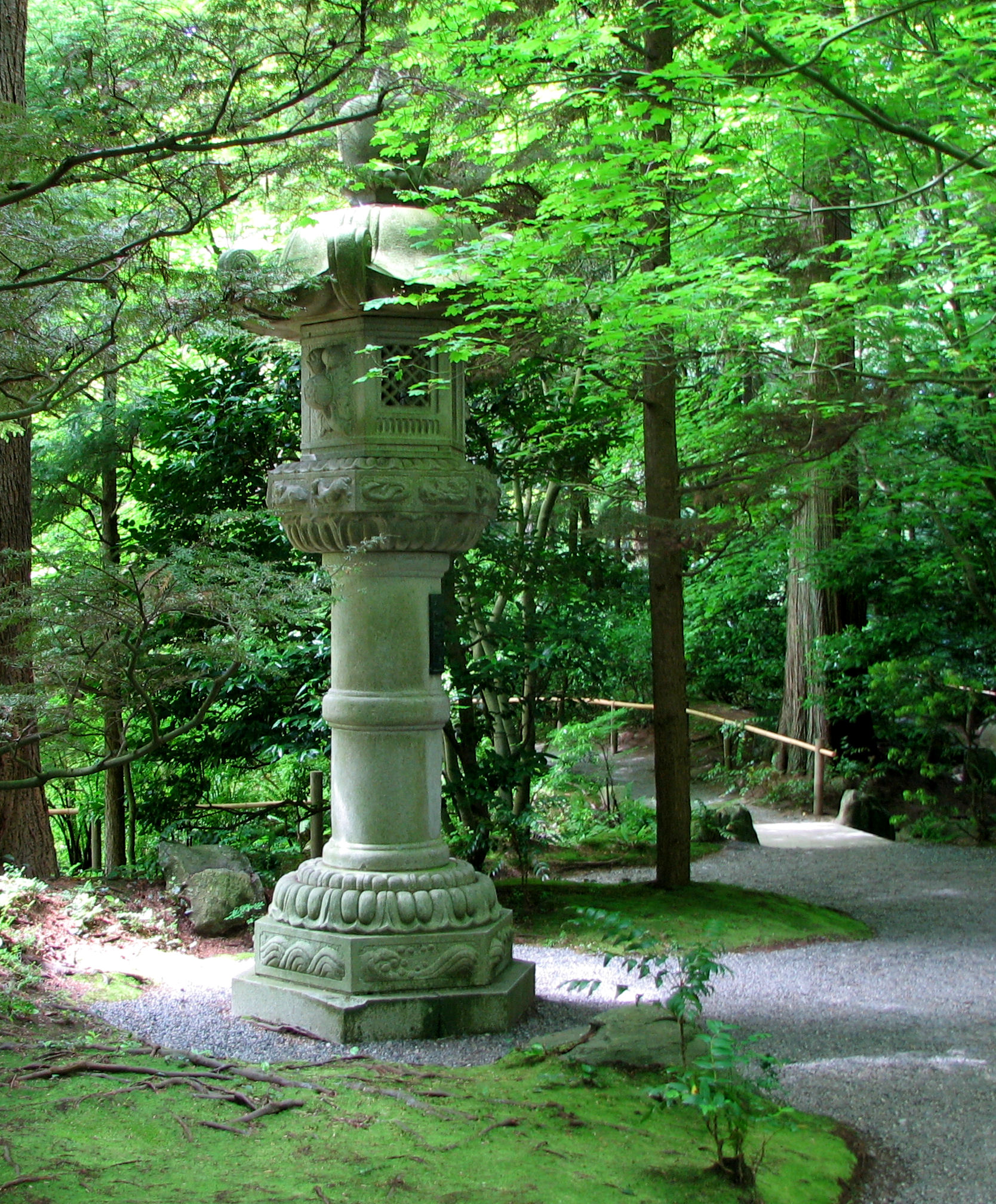 Nitobe Gardens, memorial, University of British Columbia, Vancouver, BC, Canada